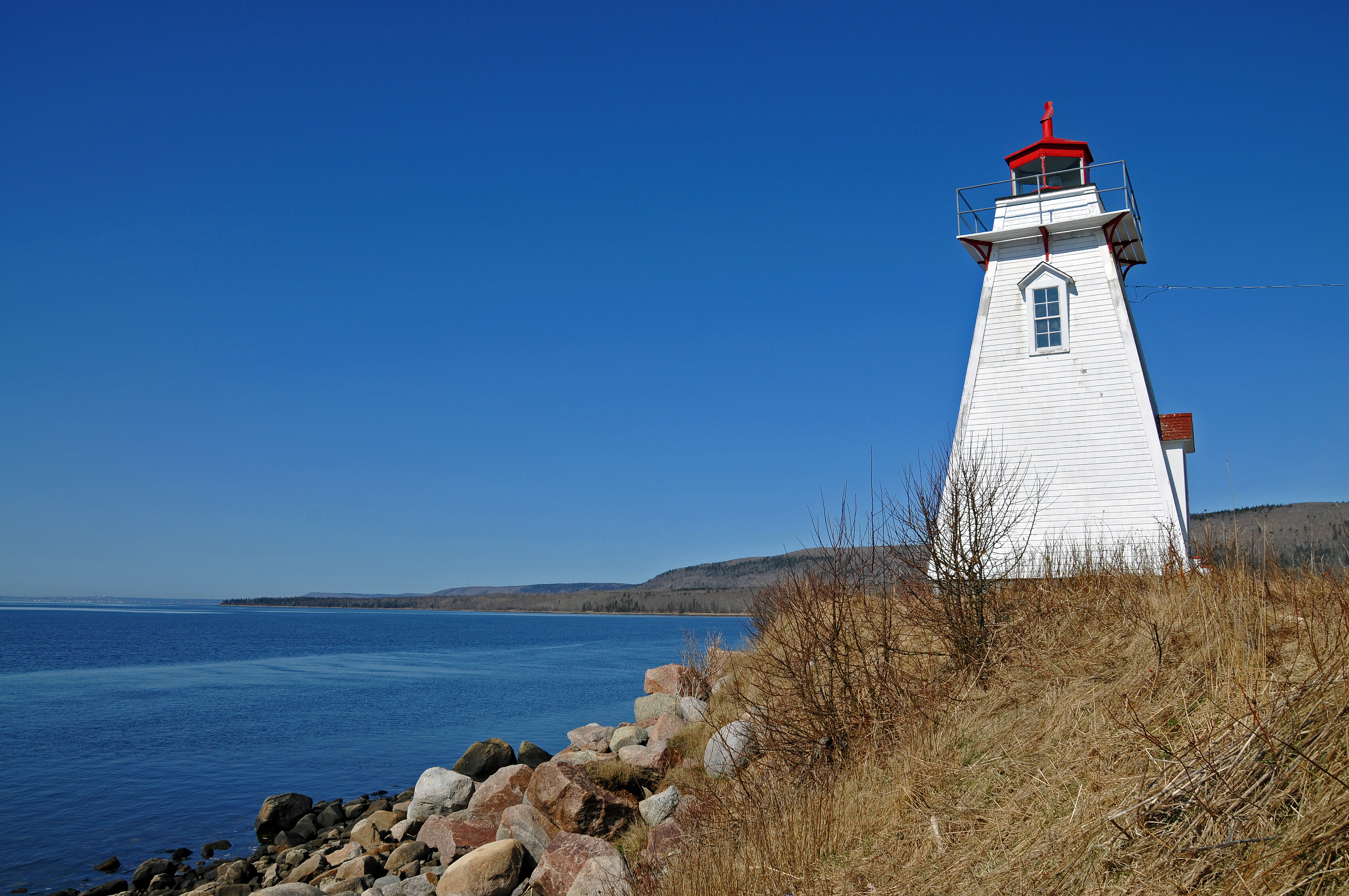 Lighthouse overlooking the Bay of Fundy at Karsdale, Nova Scotia, Canada Location:On point, near Port Royal, west side of river Standing:This light is still standing. Operating:This light is operational Automated:All operating lights in Nova Scotia are automated. Date Automated:Automated by 1993 Began:1885 Structure Type:Tapered square wood tower, white, red lantern Light Characteristic:Fixed White (1941) Tower Height:043ft feet high. Light Height:055ft feet above water level.